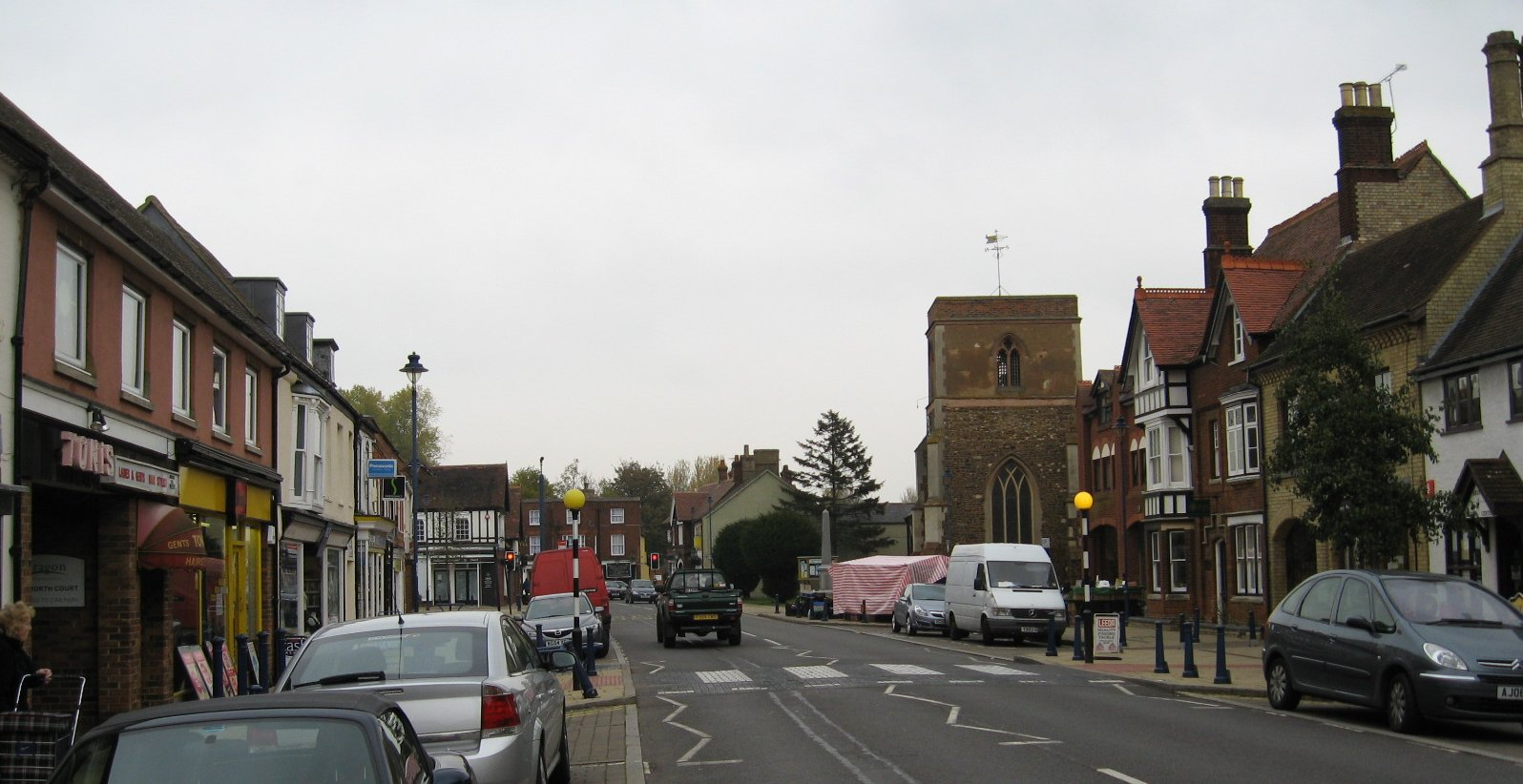 View east-northeast along High Street, Shefford, Bedfordshire, with the parish church of St Michael and All Angels on the right